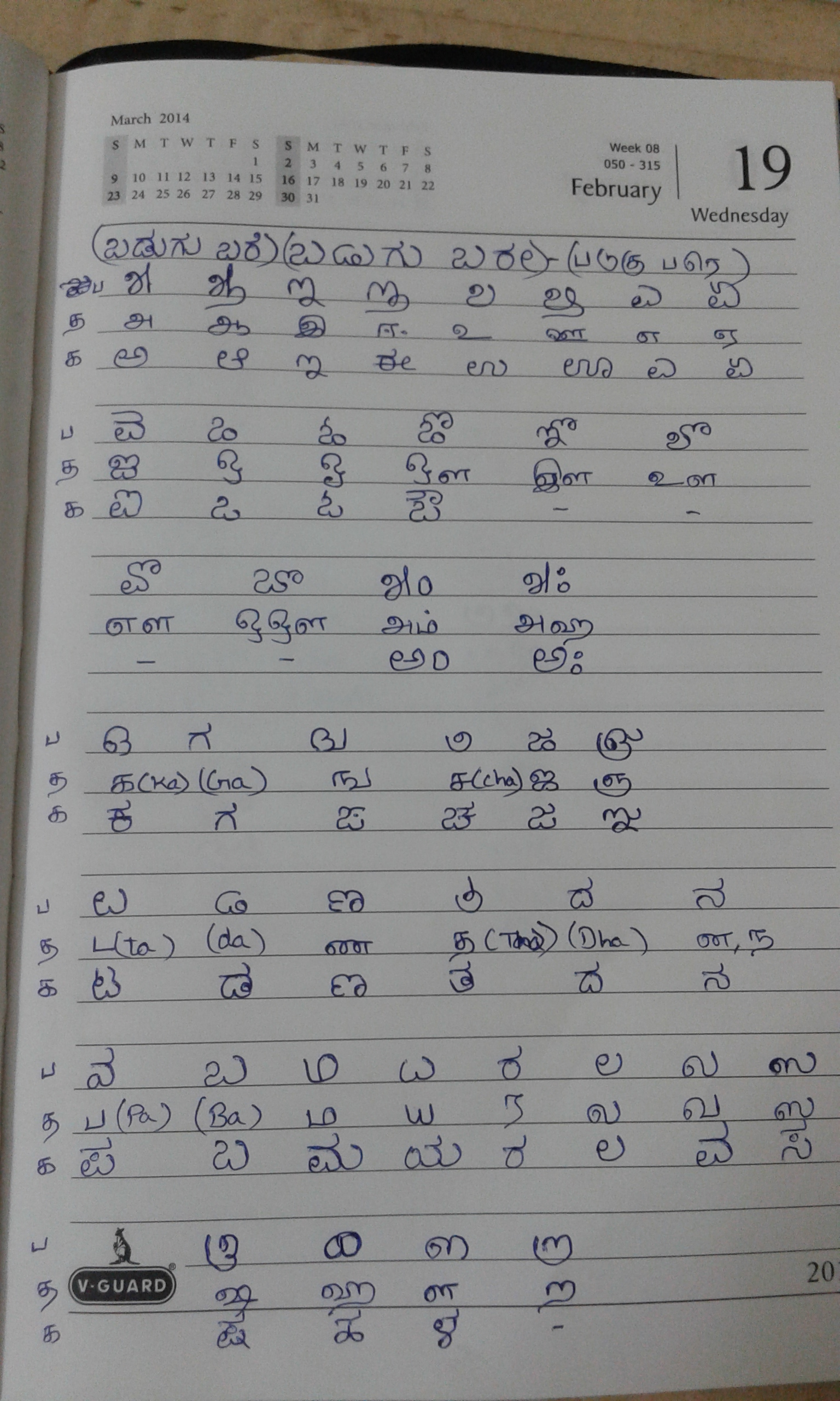 Alternative script for Badaga language. Badaga is a one of the Dravidian language spoken by the people in Niligris of Tamil Nadu. There are many debate whether it is a dialect of Kannada or not. But that is not a case here. With a years ago, badaga is a language which has no script of its own or which has a own script but not used now. But to write Badaga language tamil letters are used. The major difficulty in using Tamil script for Badaga is pronunciation difference. For example Betta(Mountain). In Tamil we use single letter to pronounce "Pa" as well as "Ba". Similarly "Ka","Ga", "Ta","Da" and "Tha","Dha" so the meaning and the sweetness of the language gets altered whne we use Tamil script for Badaga words. Since Badaga is similar to Kannada, we can use Kannada script for badaga words. Also Kannada language has difference in pronunciation is letter such as "Ka","Ga" "Ta","Da" and "Tha","Dha" etc. But the difficulty faced here is Badagas live in Tamil Nadu and they dont know Kannada script. For a survival of language it should has its own script. So its my suggestion................ the script developed here will be easy to write Badaga language. In this image, we can able to see the new badaga script on the top line along with the Tamil script in the next line and Kannada script at the bottom. Here you can able to see new vowels which are not in both Tamil and Kannada script after "AU" those are the words probably used or may not be used in Badaga but added here with the sound of "IU", "UU", "EU" and "OU".